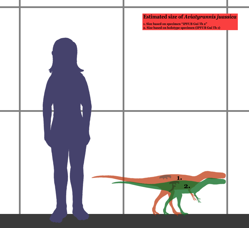 Estimated size of Aviatyrannis jurassica (Dinosauria, Theropoda, Coelurosauria, Tyrannosauroidea).[1] Sources ↑ Rauhut O.W.M. (2003), "A tyrannosaurid dinosaur from the Upper Jurassic of Portugal", Paleontology 46(5): p. 903-910.